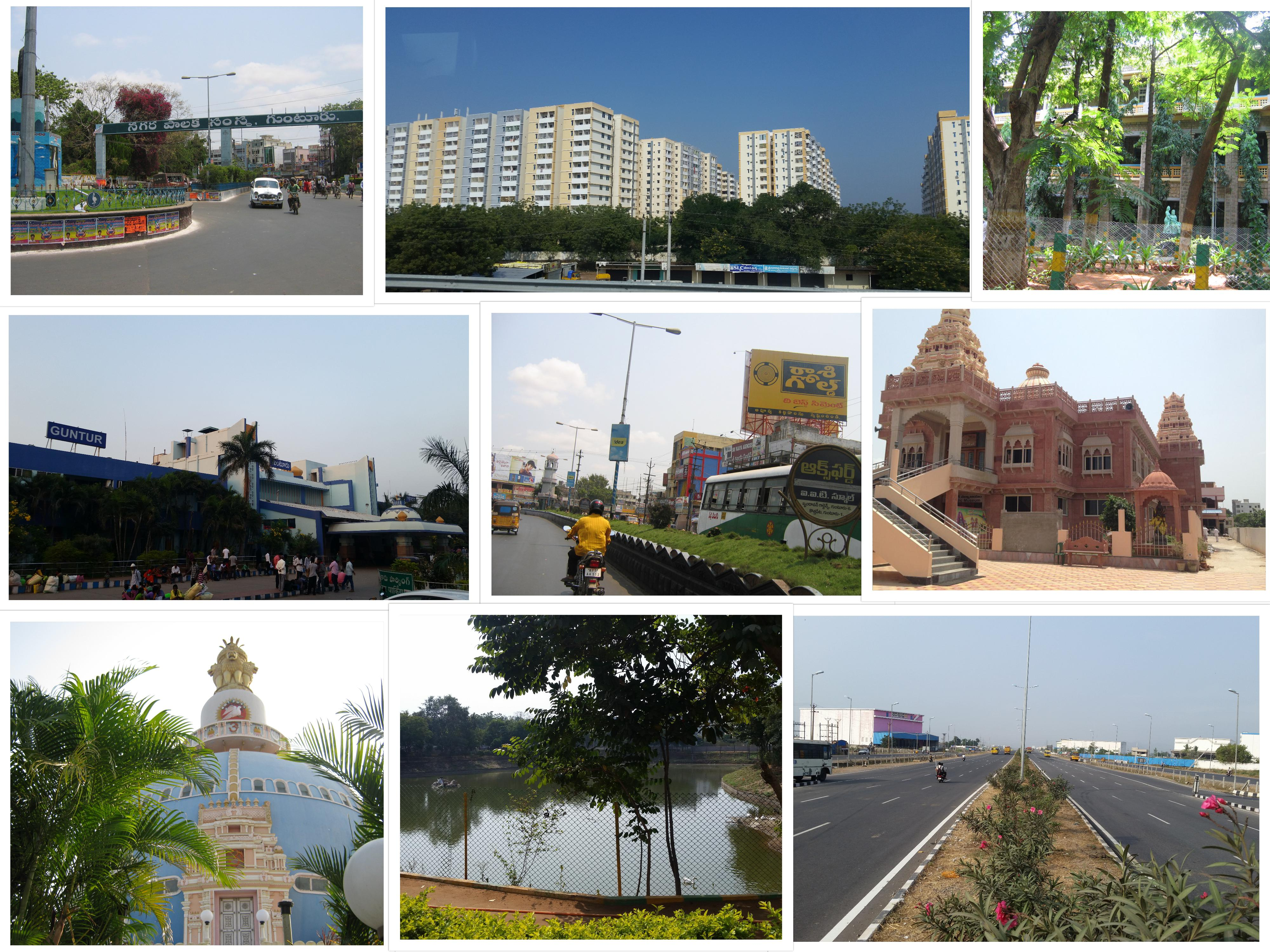 The montage of the Guntur city.